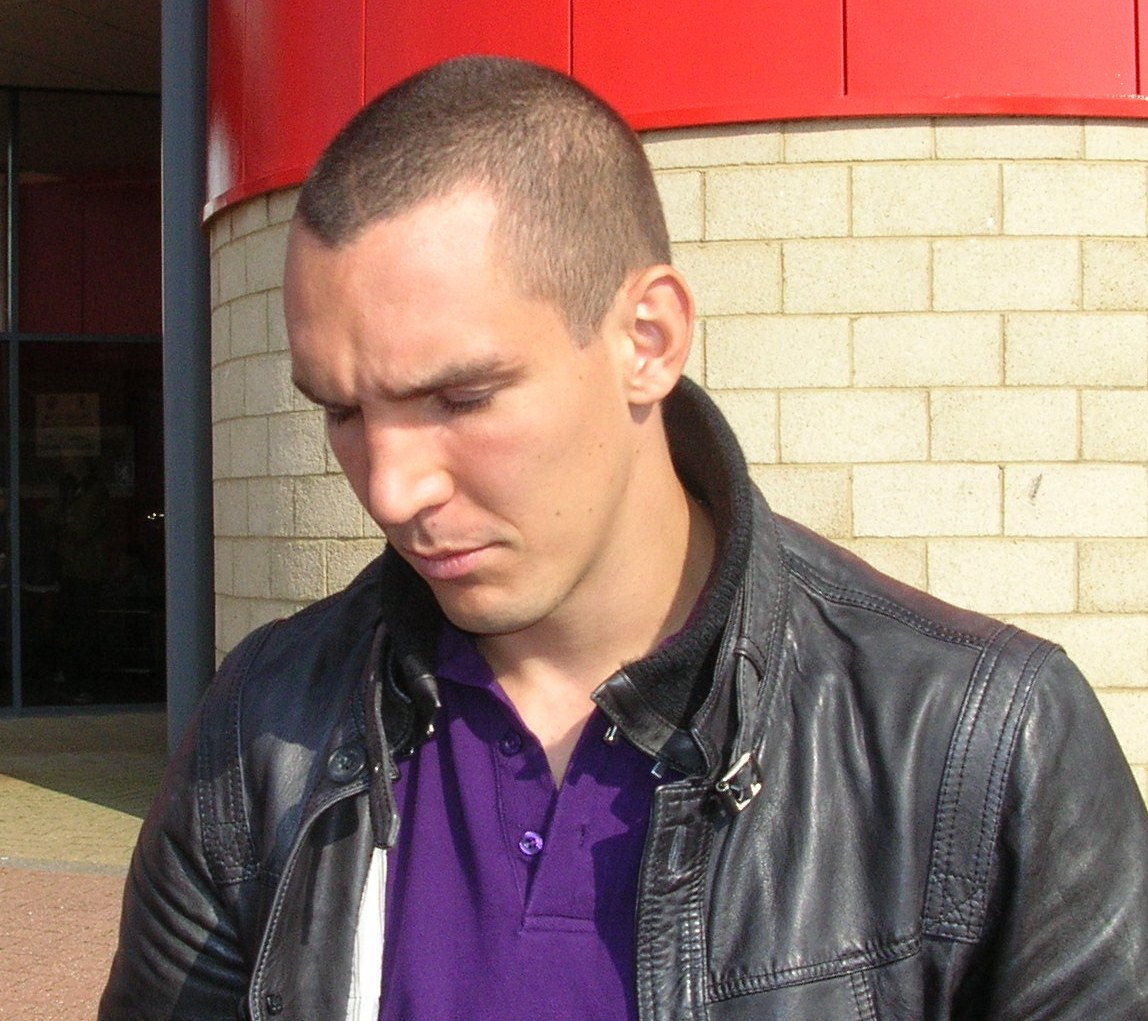 Emanuel Pogatetz, Austrian footballer